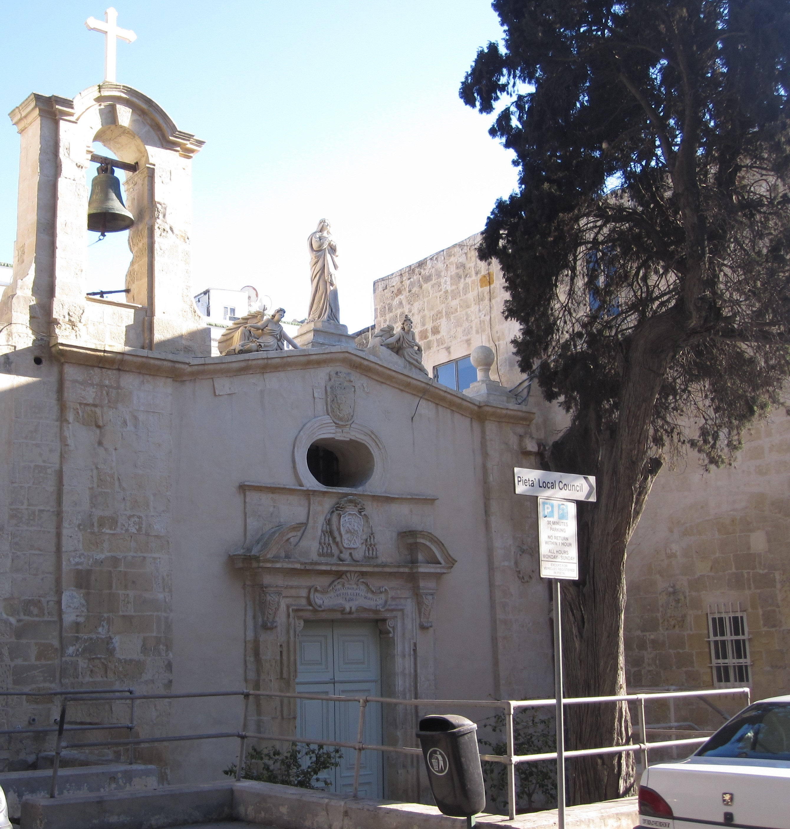 The chapel of Our Lady of Sorrows in Pieta, Malta.